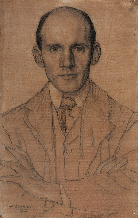 Portrait of James Craig Annan